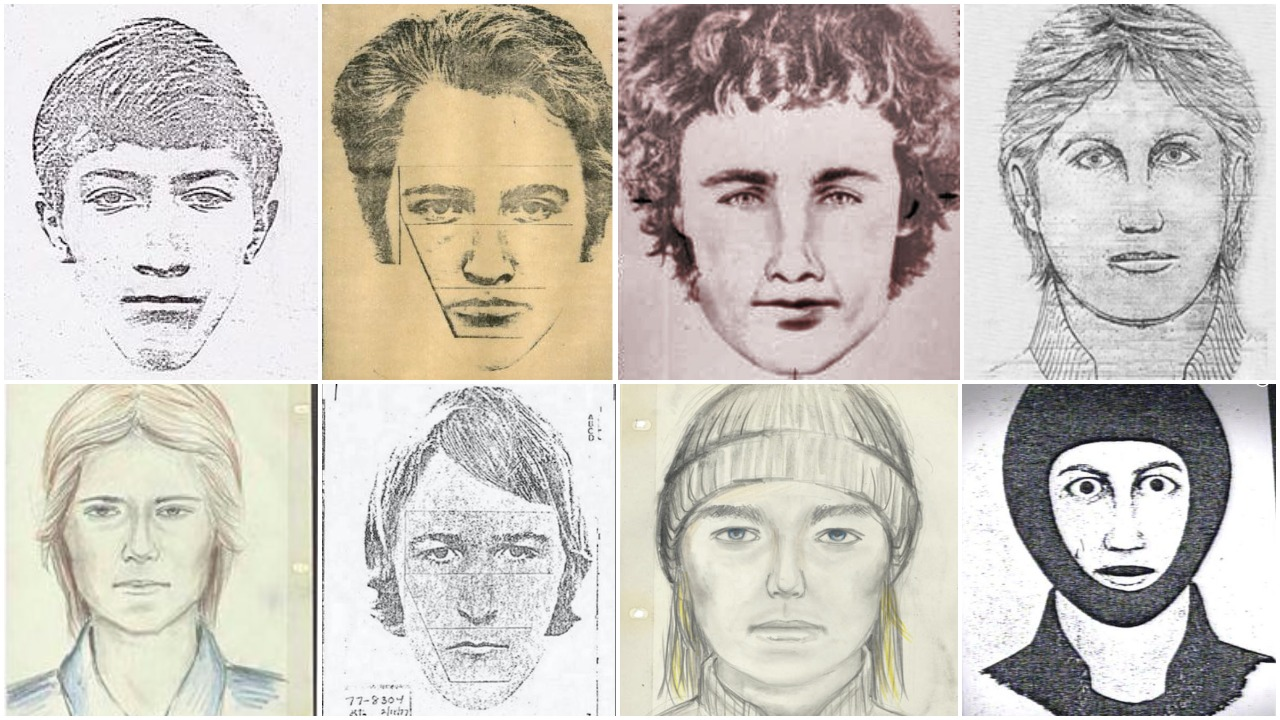 Sketches of the Original Night Stalker